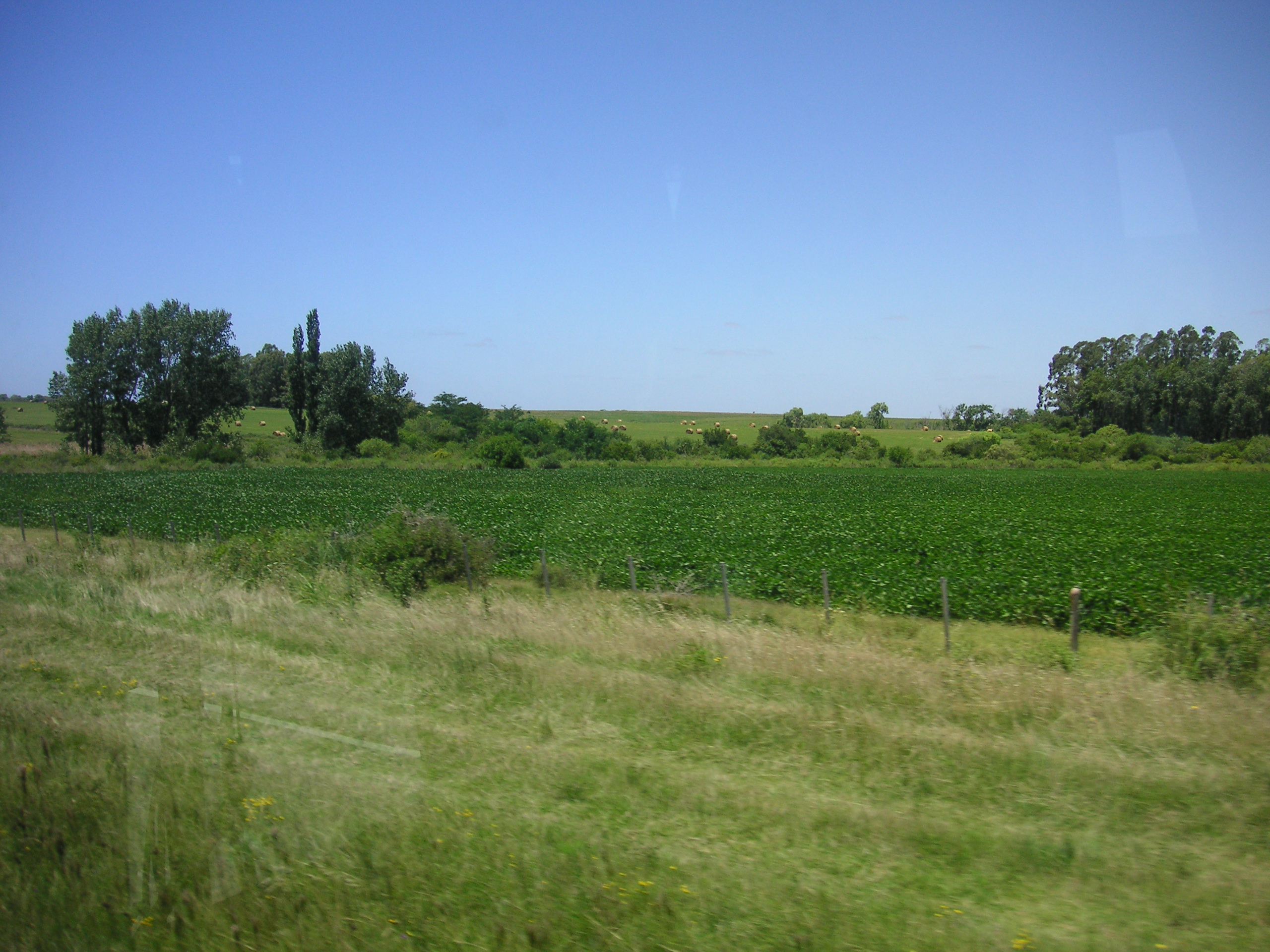 Uruguayan fields in summer.